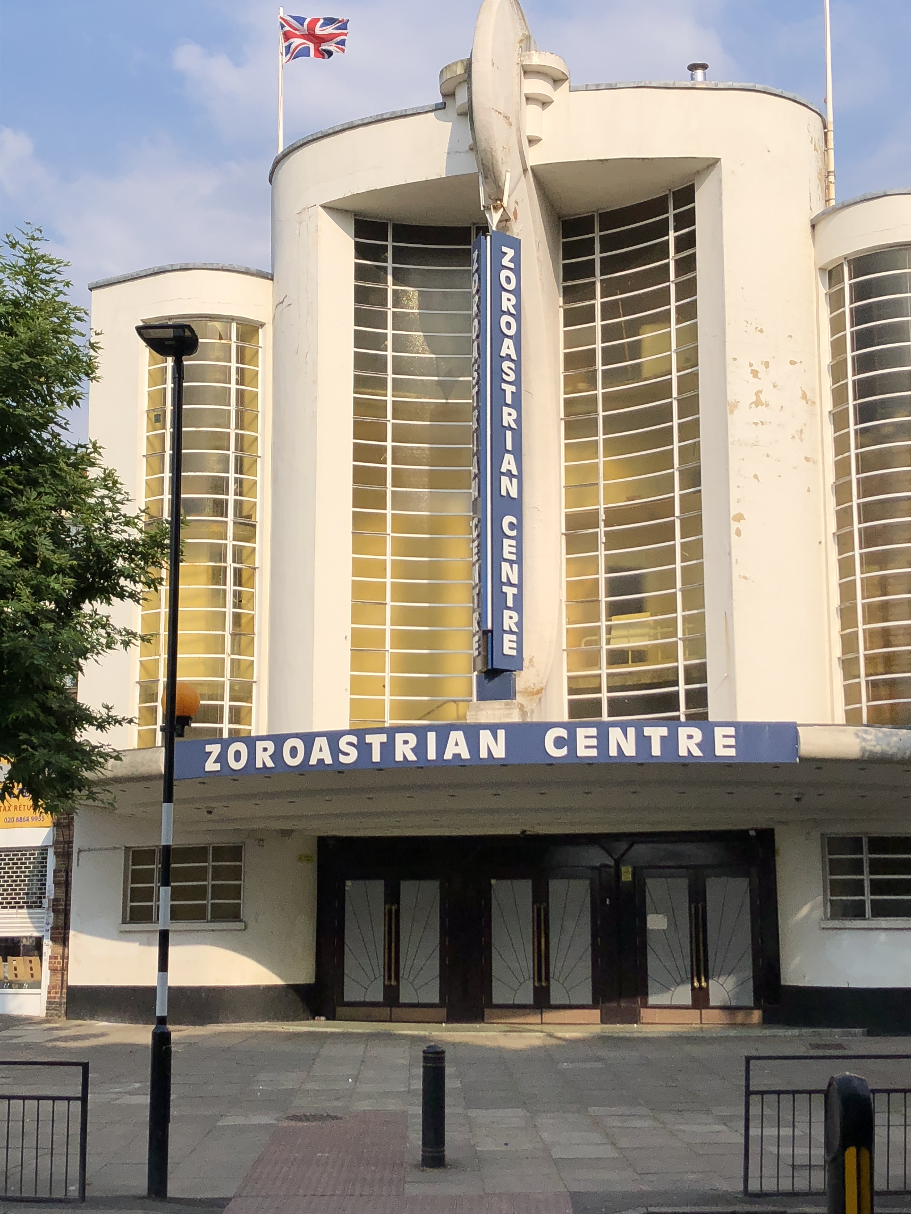 A photo of the former Ace Cinema, now the Zoroastrian Centre in Rayners Lane, North Harrow